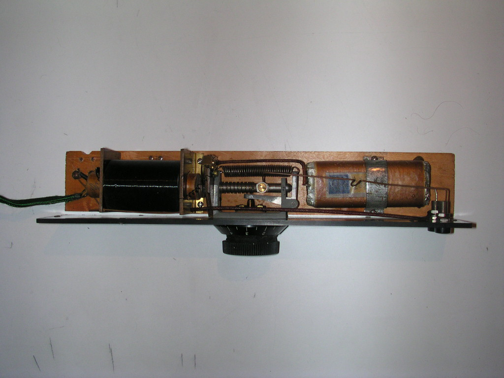 RF 309 is the only inscription on this device that was built more or less long before 1956. The inner workings of the device with the Wagner's hammer in the middle, the mechanical amplitude is governed by a set screw. User: Karl Bednarik photographed on 3 December 2006